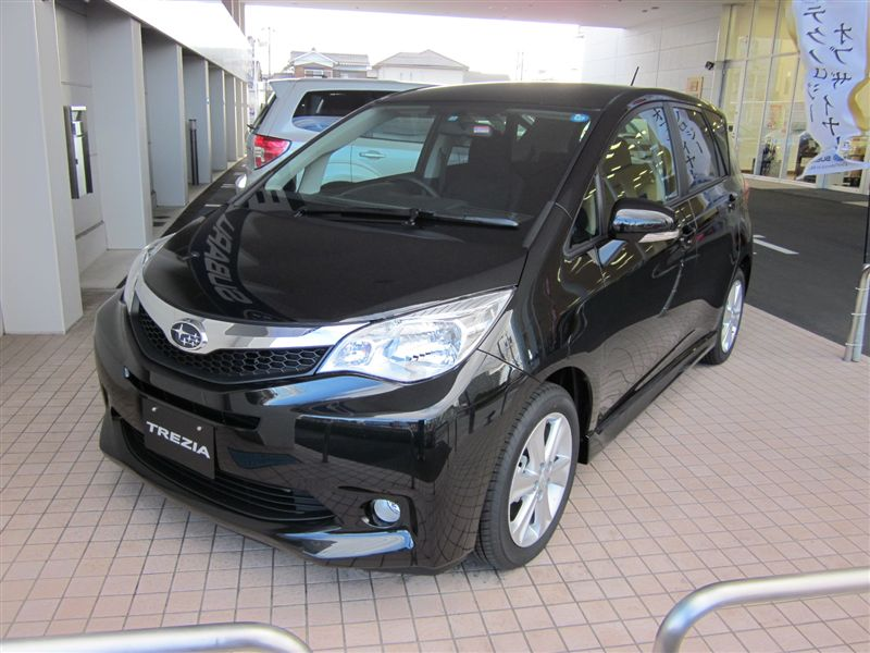 Subaru Trezia